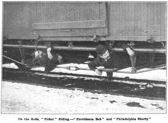 Two hobos ride the rods on the underside of boxcar.